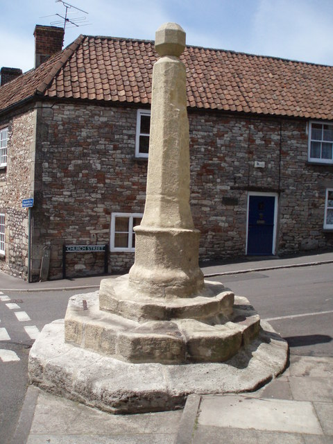 The monument at Croscombe This monument was put in place in the 1800s, apparently replacing an older version which had been there since the 1300s. It is heavily weathered (the rock type is oolite - a soft limestone variety) especially on the front right where it serves as a seat for the patrons of the adjacent Bull Terrier public house.